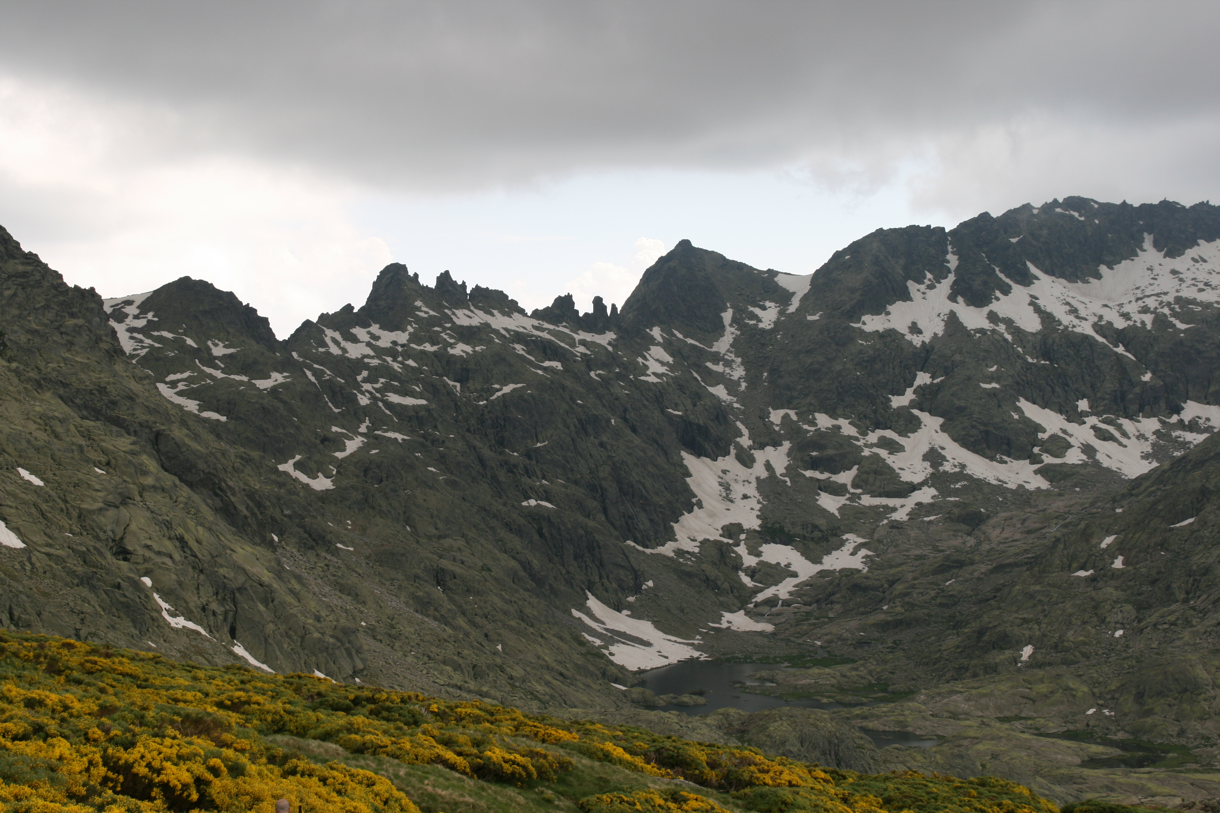 Circo de Gredos is a glaciar circus over plutonic rocks. It is in the Sierra of Gredos in the centre of the Spain.